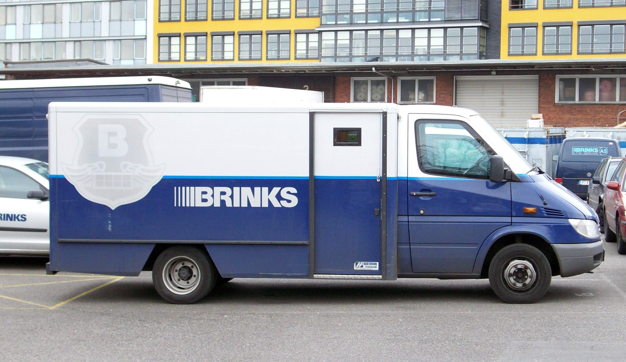 Armored car of The Brink’s Company, a security and protection company.